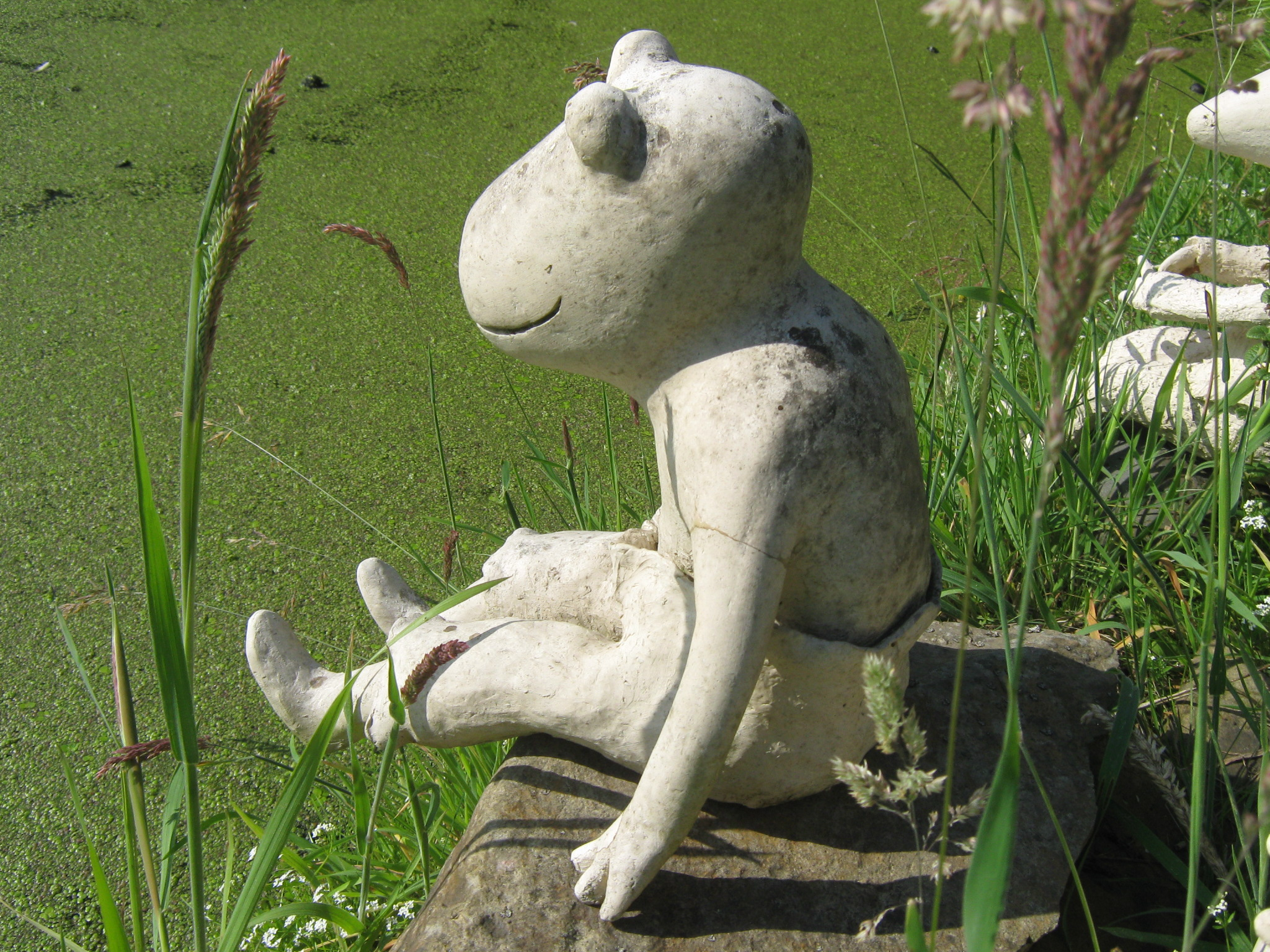 Garden decoration - Frog sculpture in the Netherlands